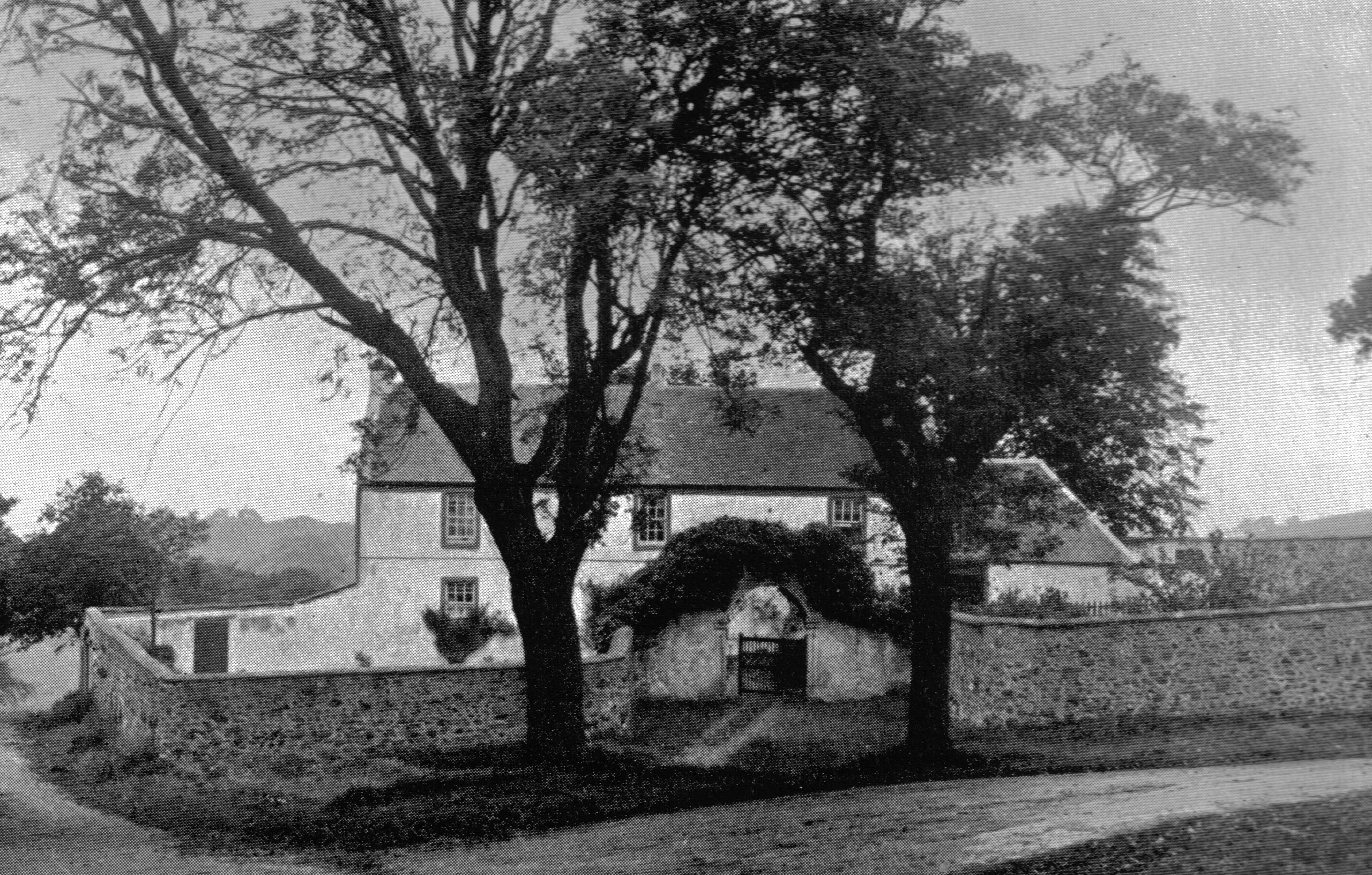 The old Hall of Caldwell, Renfrewshire, Scotland.